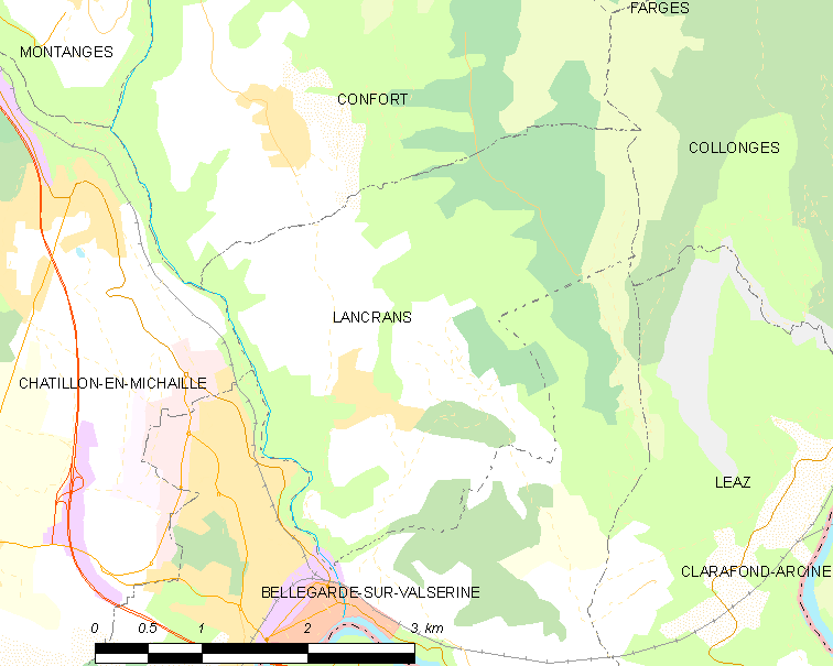 Map of French commune: Lancrans Map commune FR insee code 01205.png